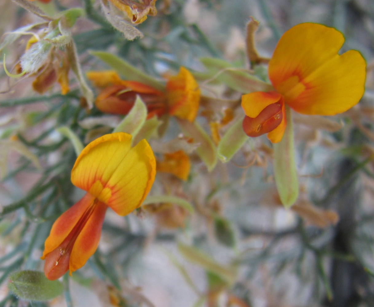 Jacksonia furcellata (cultivated, labelled) Maranoa Gardens, Balwyn, Victoria, Australia